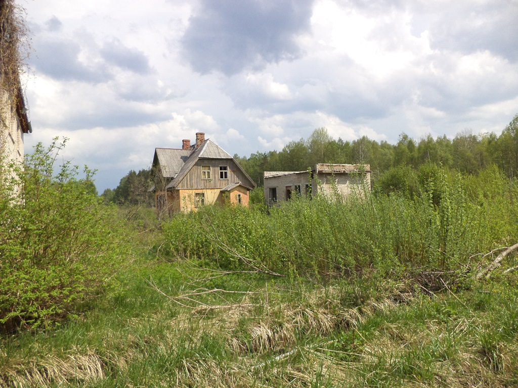 Rīvas